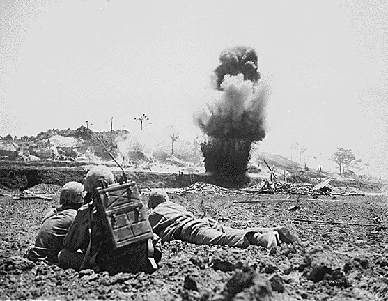 Okinawa - shelling of a japanese hidden cave.